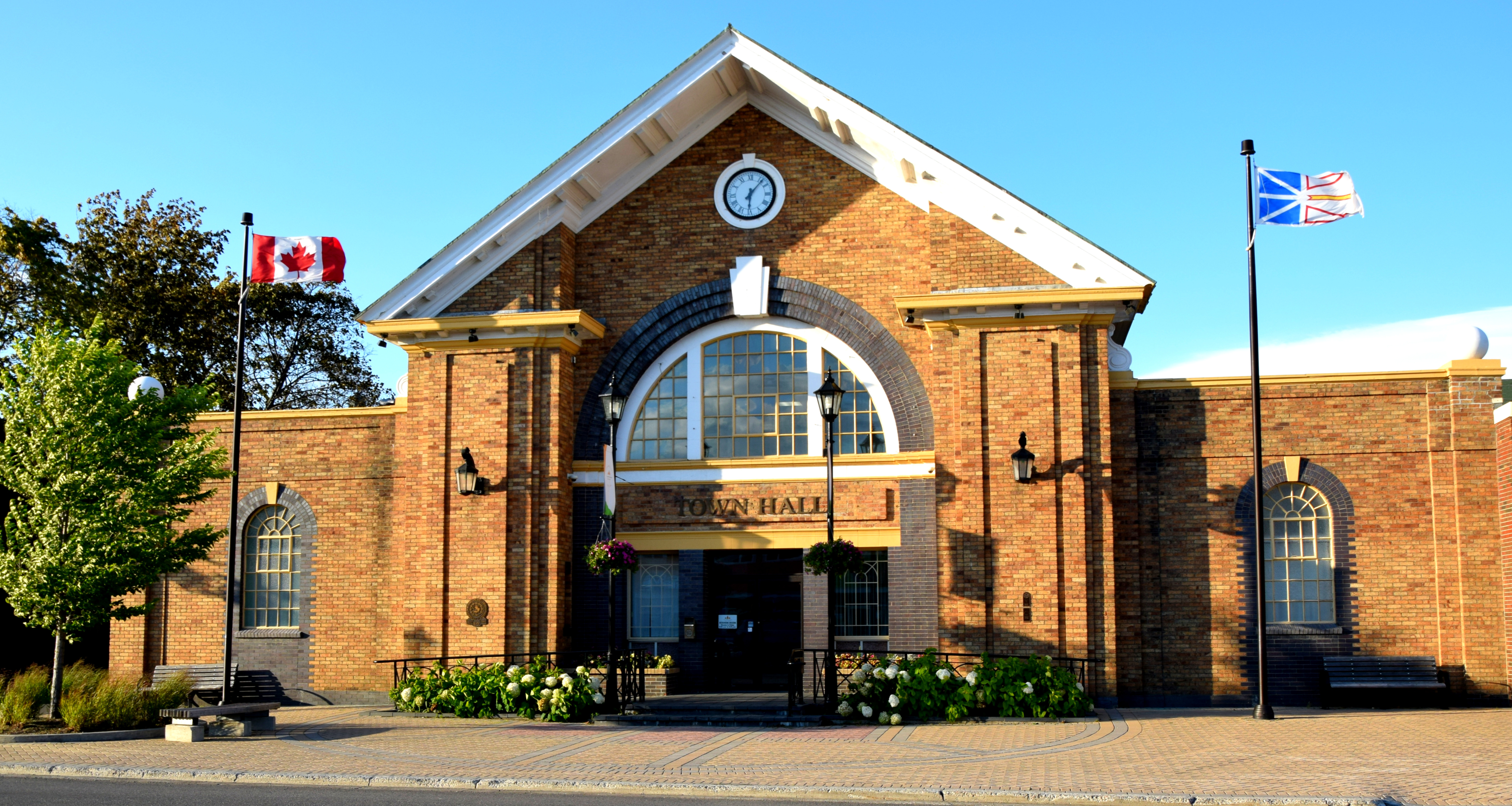 Home of the Town Council for Grand Falls-Windsor